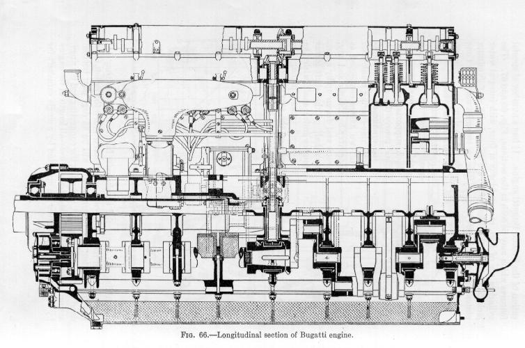 Longitudinal section of a Bugatti U-16 aircraft engine.